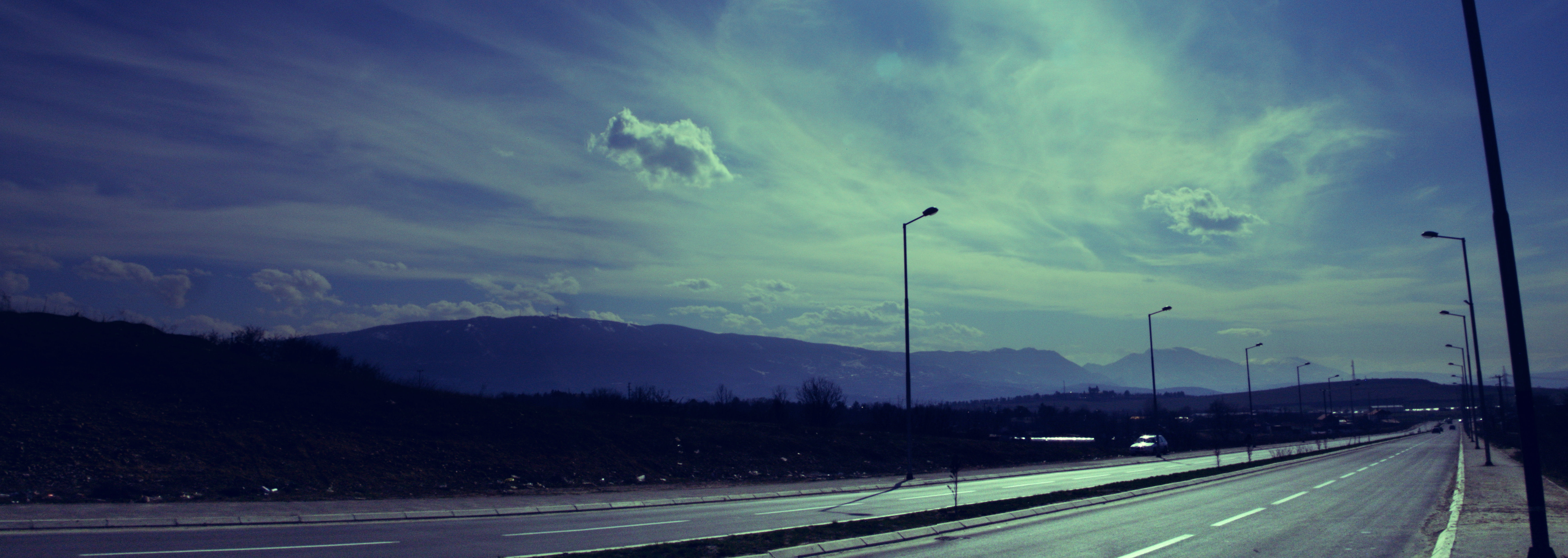 Panoramic view of boulevard Slovenia in Skopje, Macedonia